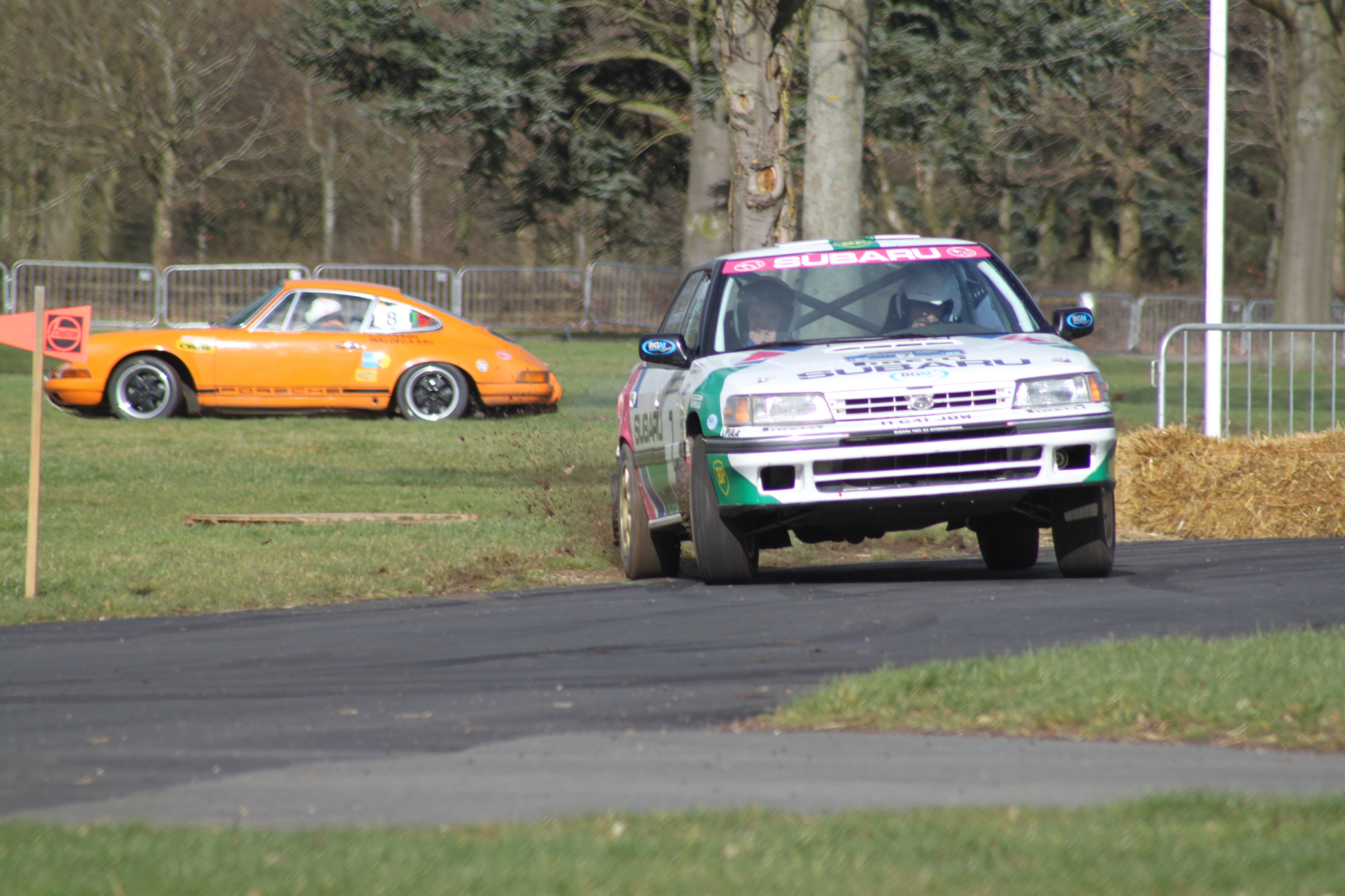 Legacy1